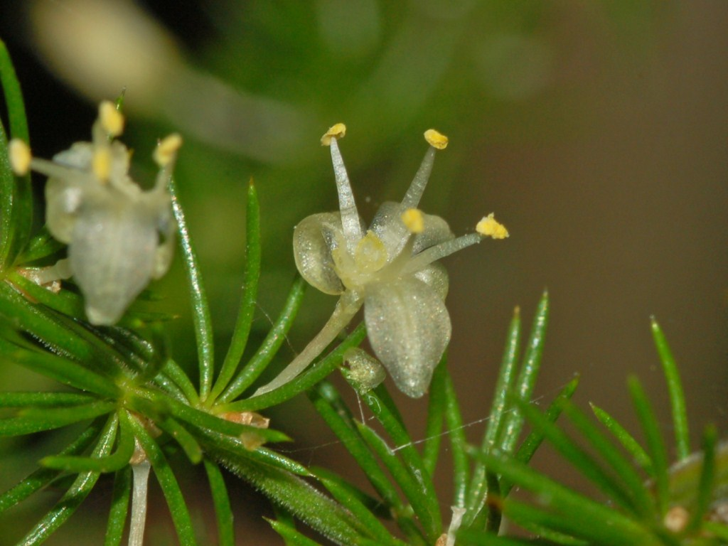 Asparagus acutifolius - Genova, Italy